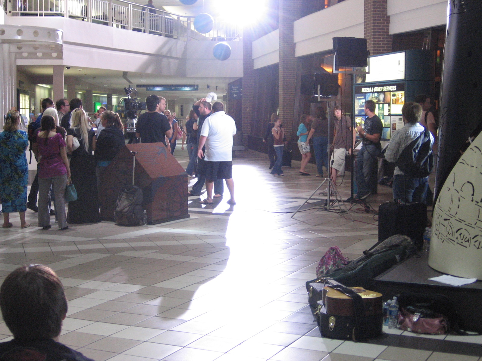 Filming of Brandon Heath's music video for "Give Me Your Eyes" in the baggage claim area at Birmingham Shuttlesworth International Airport.